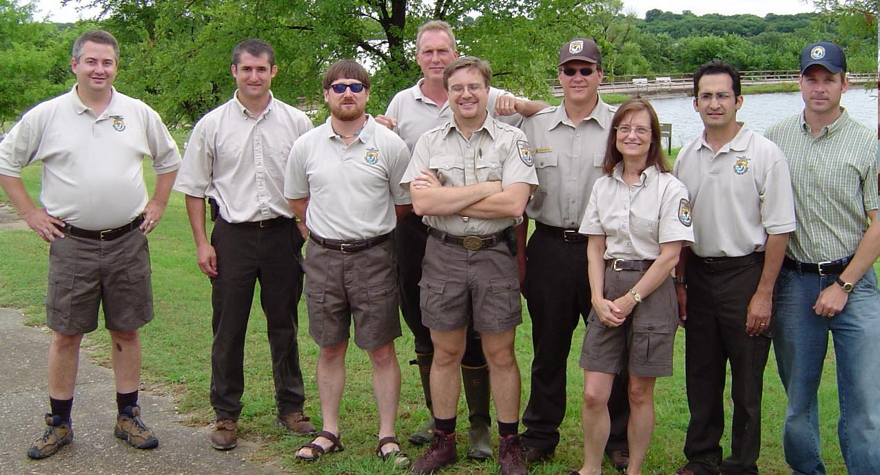 In May 2003, Sean was beginning graduate school to start my M.S. in biology, when a future co-worker gave a presentation at Sean’s college on careers in biology with the federal government. He says: “I was intrigued with his presentation about the Service and asked about volunteering. I began volunteering almost immediately and ended up putting in 240 hours with the Arlington, Texas, Ecological Services Field Office that spring and summer.” He then became a student worker with the office and then a full-time employee in August 2004. “Needless to say, my volunteering has worked out very well for me. After almost 15 years, I am still with the Arlington ES office and hold the position of Supervisory Fish and Wildlife Biologist. Among other responsibilities, I serve as our office's Volunteer Coordinator and I'm quick to point my personal volunteering story to all of the volunteers our office has had the pleasure of working with.” The photo is from a June 2003 children's fishing event. He is on the far right, proudly wearing a Service volunteer cap. Photo courtesy Sean Edwards